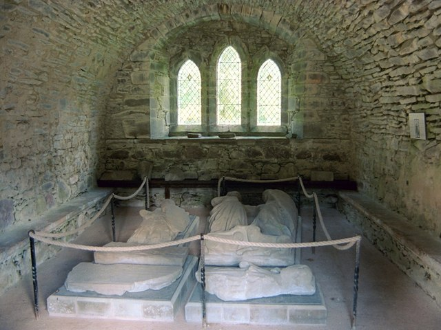 Effigies in the Chapter House. This is a view of the interior of the chapter house of Inchmahome Priory. Under the direction of a prior or sub-prior, the canons met here daily; they sat on the stone benches that are visible around the walls. Following a reading of a chapter of the monastic rule (hence the name "chapter house"), they would transact the business of the priory here, as well as making confession and receiving absolution [see the official guide booklet (Historic Scotland)]. The life-size figure on the left represents a knight, whose shield bears the Stewart arms, while those on the right represent the Countess and Earl of Menteith (the Earl is also portrayed with a shield). The Countess, Mary, had inherited her title; the Earl, Walter Bailloch Stewart, who died c.1294, came by his title only by virtue of his marriage to her (jure uxoris). The couple were buried in the choir of the priory church; the chapter house later became a mausoleum, and the effigies (as well as some other remains from the old priory) were moved here for display, and for protection from the elements. For an external view of this building, see 1563254, where the chapter house is the roofed structure that is visible just right of centre.